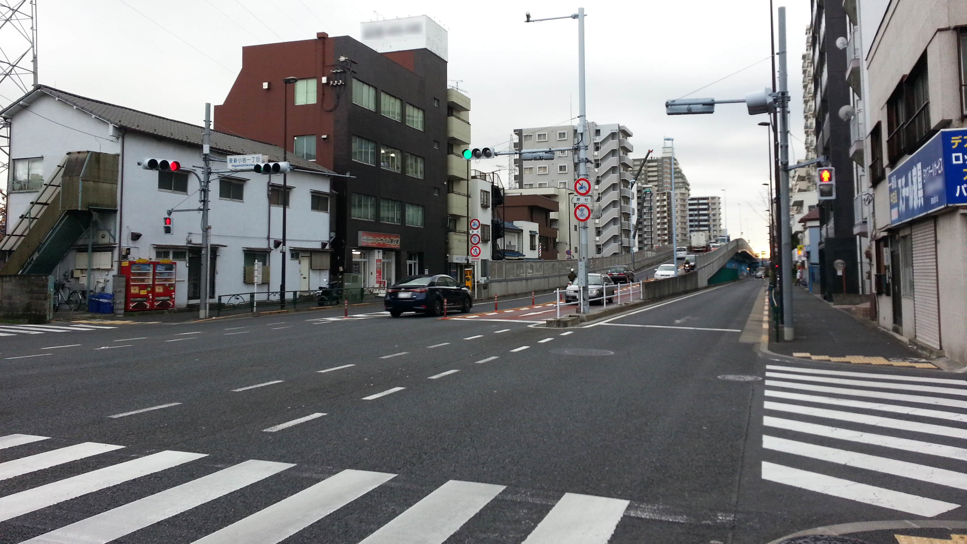 The east side of The Shin-Koiwa overpass